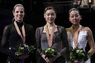 The ladies podium at the 2013 World Championships.From left: Carolina Kostner(2nd), Kim Yu-Na(1st), Mao Asada(3rd).